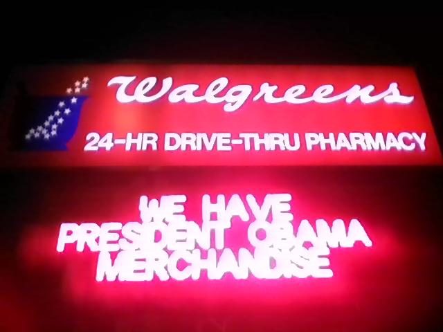 Wallgreens sign reading: We have President Obama merchandise